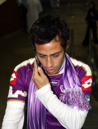 Jorge Valdivia , Al-Ain FC